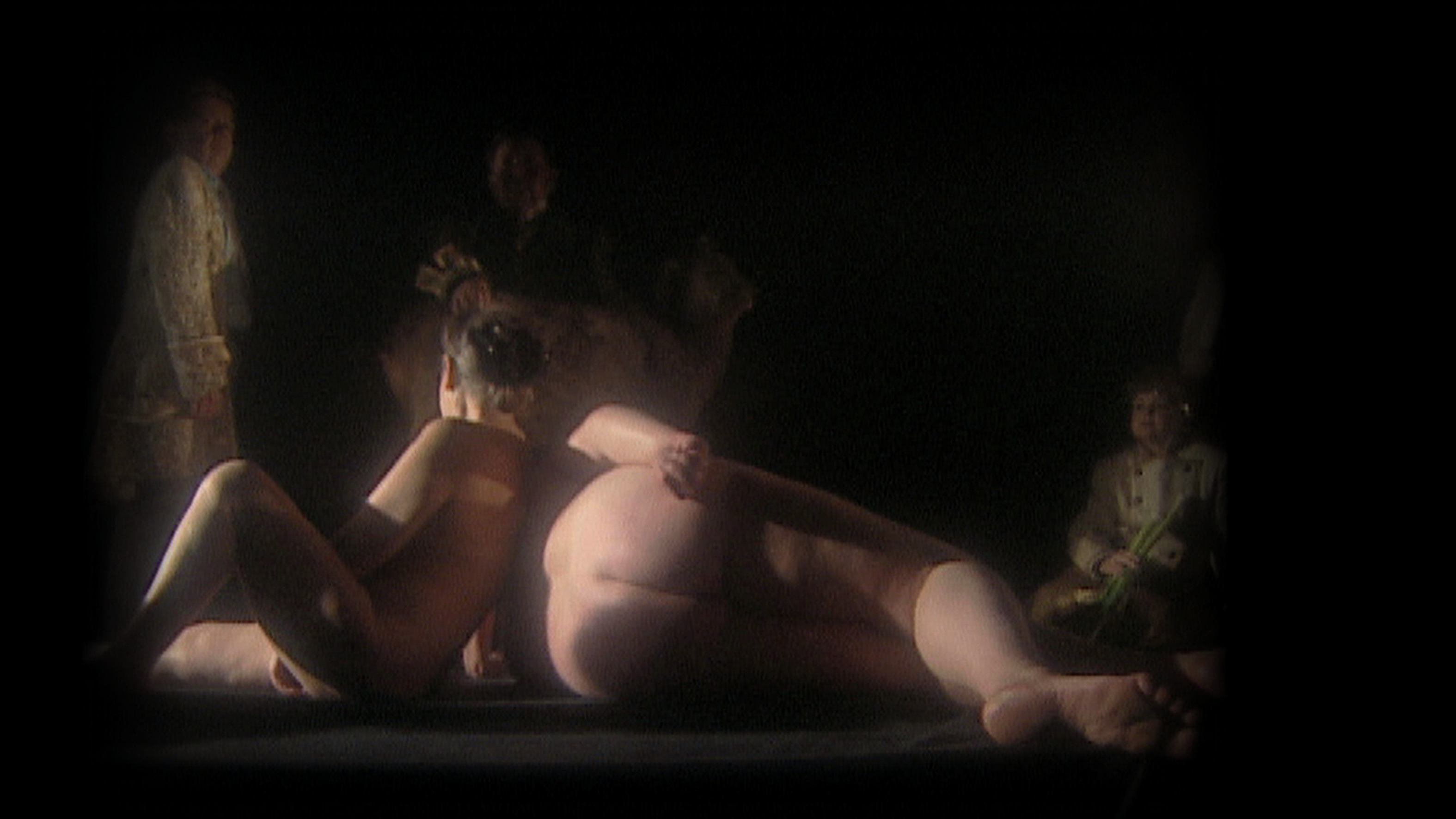 Still from Merry-Go-Round, short movie